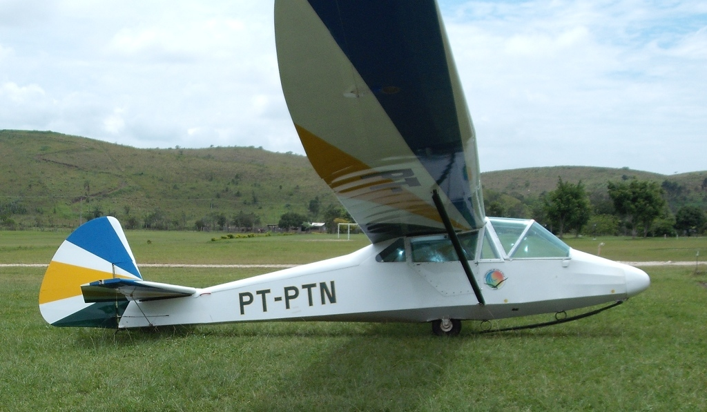 Neiva B Monitor sailplane at Clube de Voo a Vela-CTA in Ipuã (SDIP) -Brazil